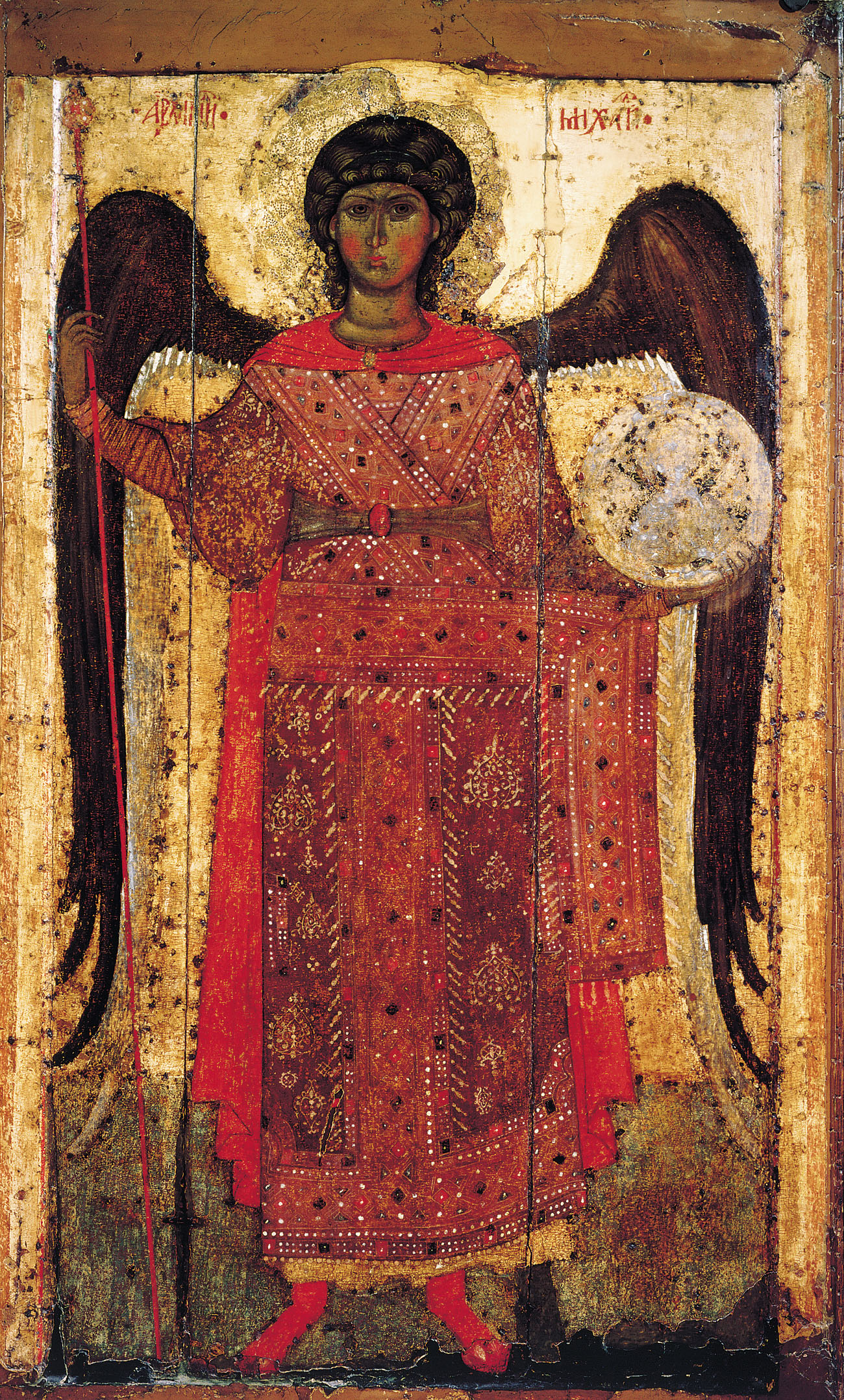 The 13th-century icon of St. Michael from Archangel Cathedral in Yaroslavl